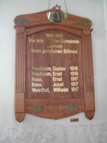 jewish roll of honour for WWI in Dornum